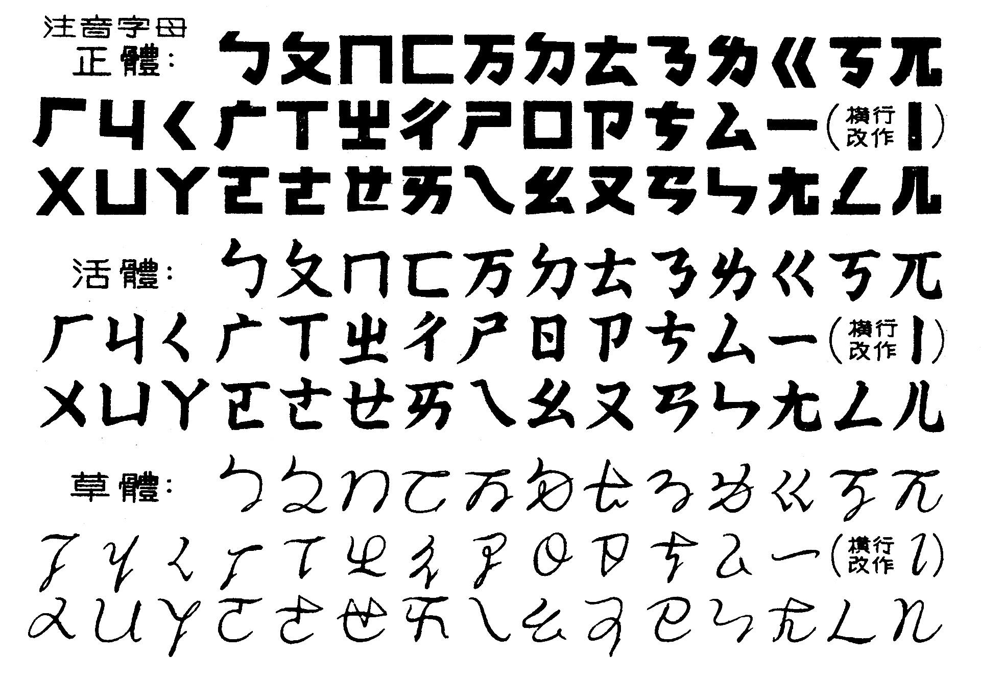 Bopomofo in regular (upper), handwritten regular (middle) and cursive (lower) formats.